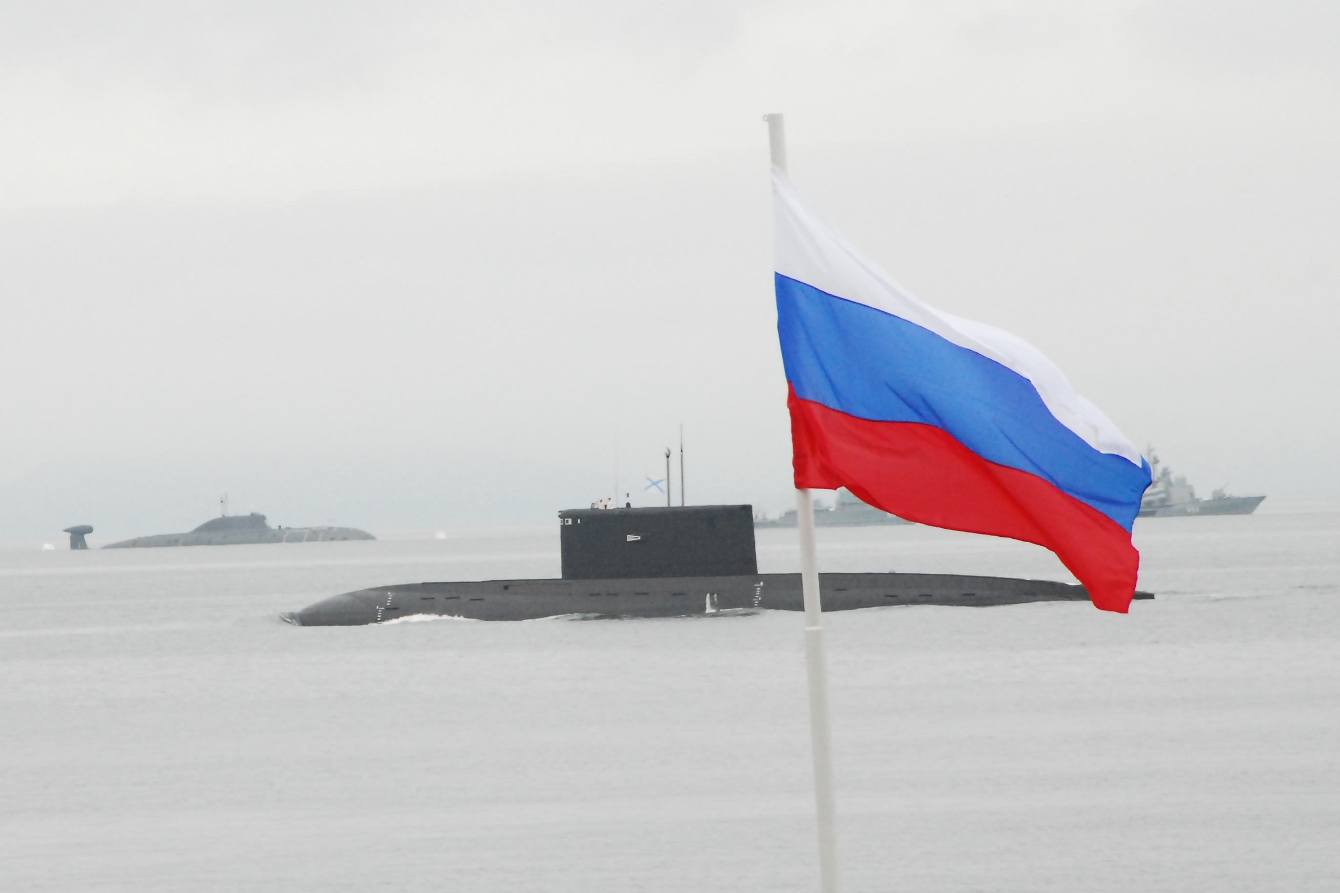 A Russian Kilo submarine passes the parade stand during the Russia Navy Day celebration in Vladivostok.